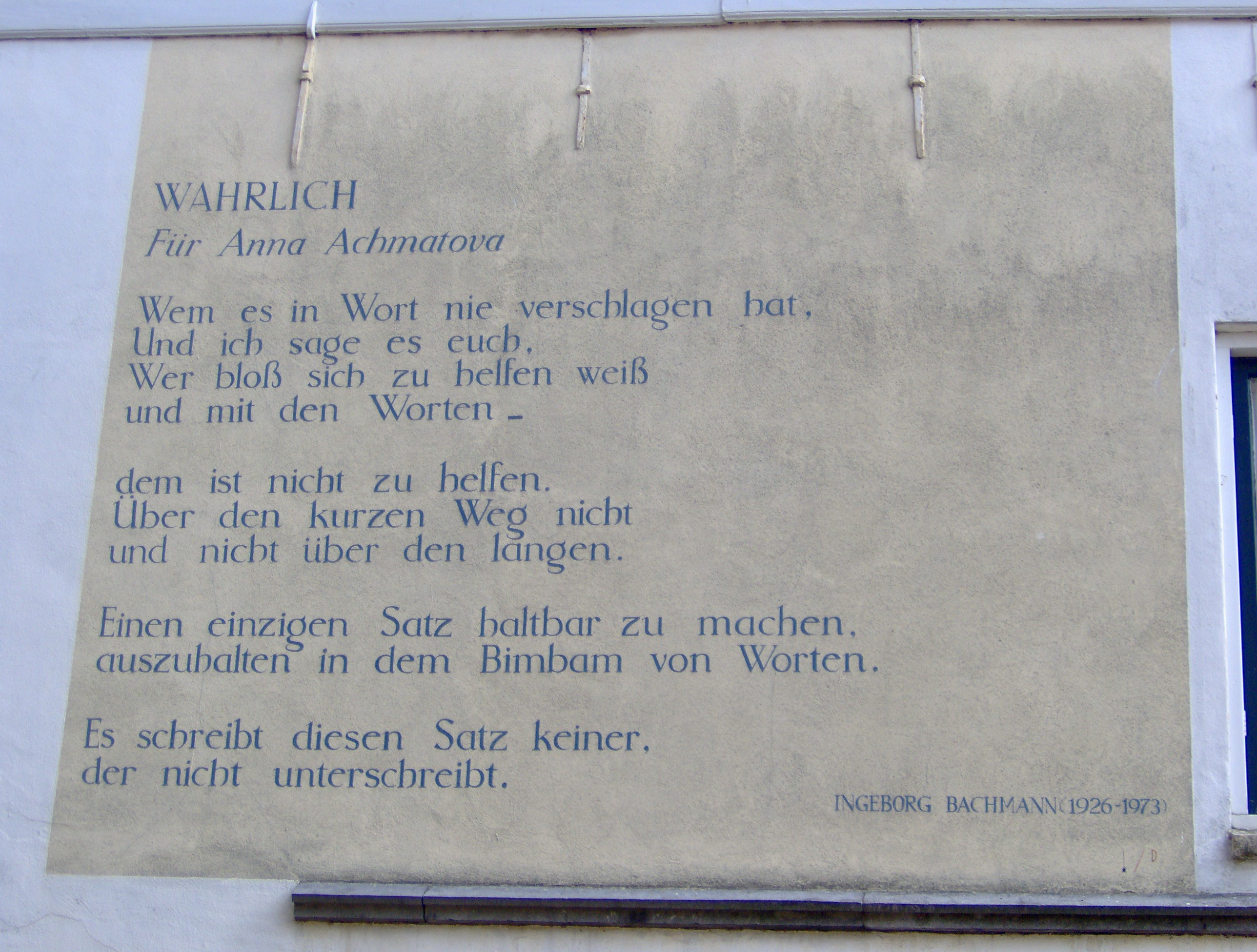 The poem Wahrlich of the Austrian poet Ingeborg Bachmann on the side wall of the building at the Nieuwe Rijn 94, Leiden, The Netherlands.